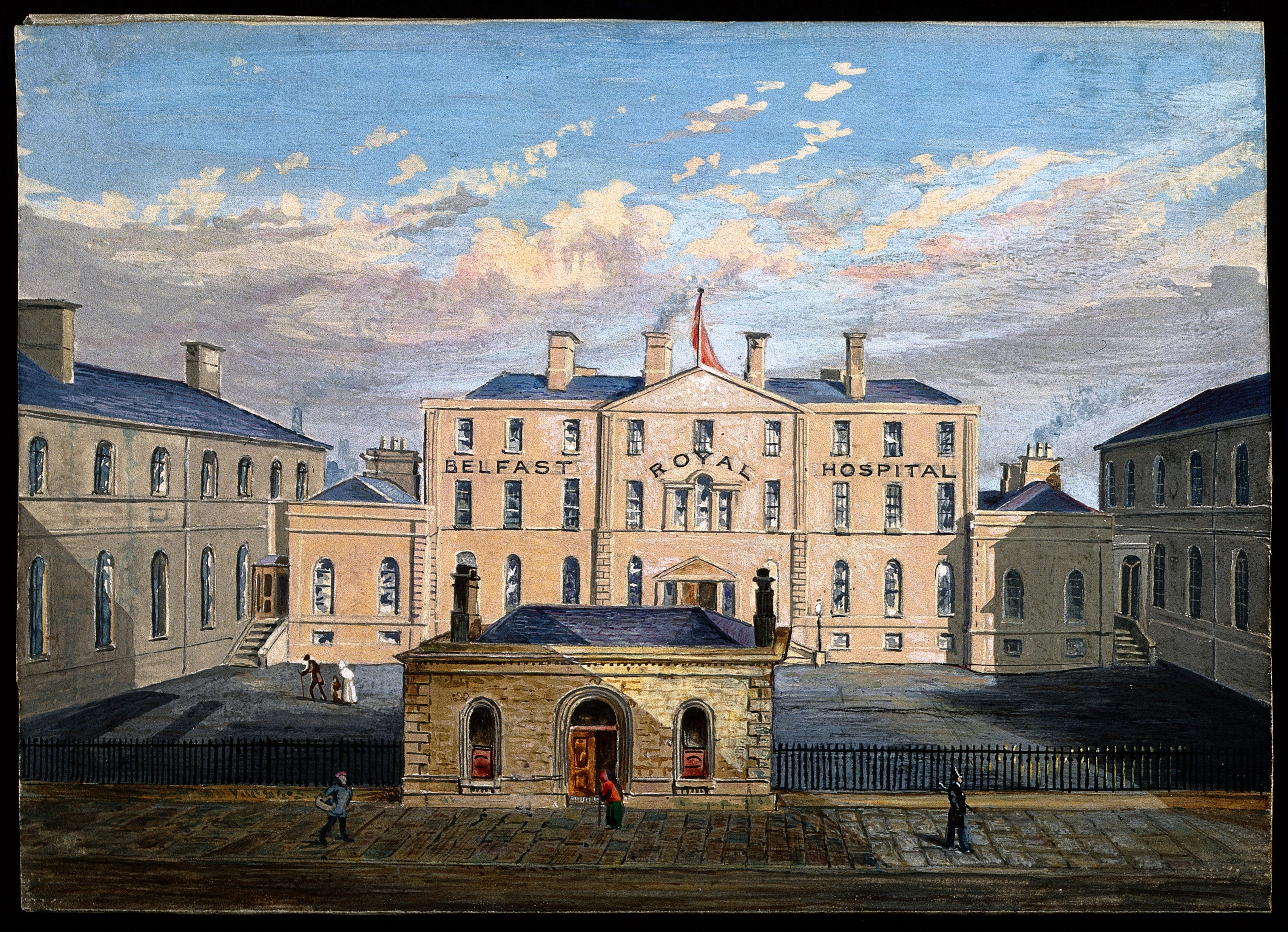 Belfast Royal Hospital in Frederick Street: the courtyard. Watercolour. Iconographic Collections